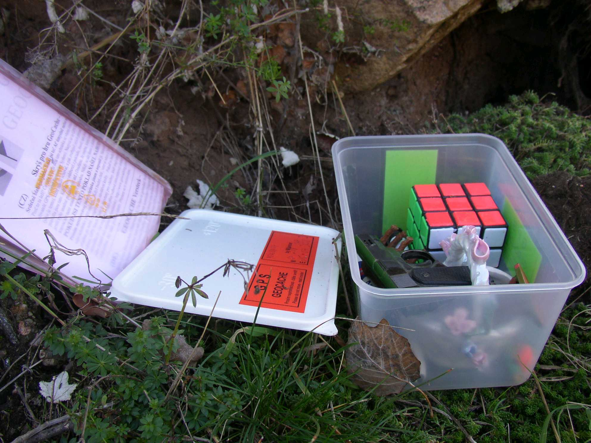 An example of container for geocaching game, Czech Republic.